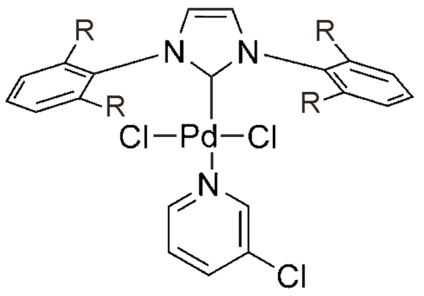 General structure of PEPPSI catalysts